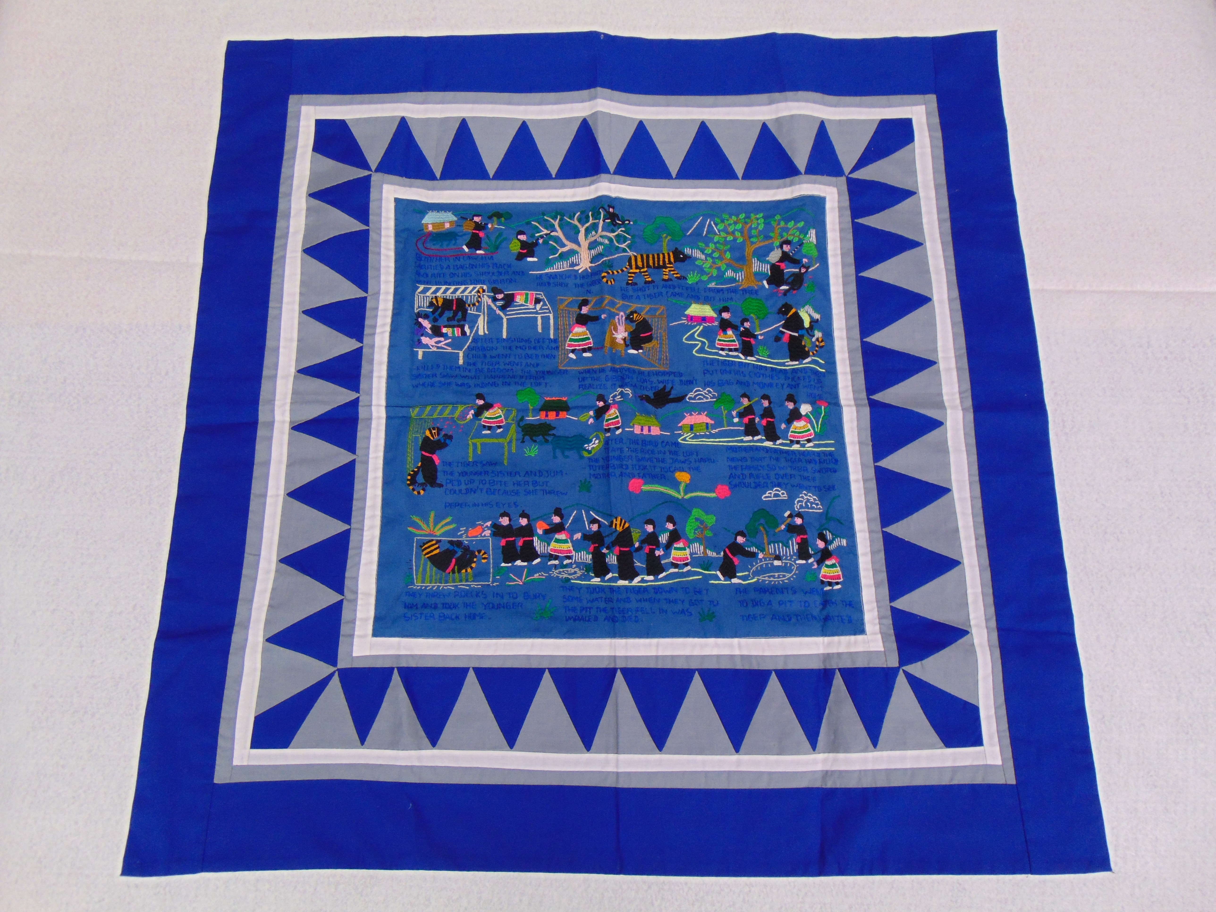 Contributed by Houa Yang. This is a hand embroidered story cloth depicting a traditional Hmong folktale of Ntxawm and the Tiger.